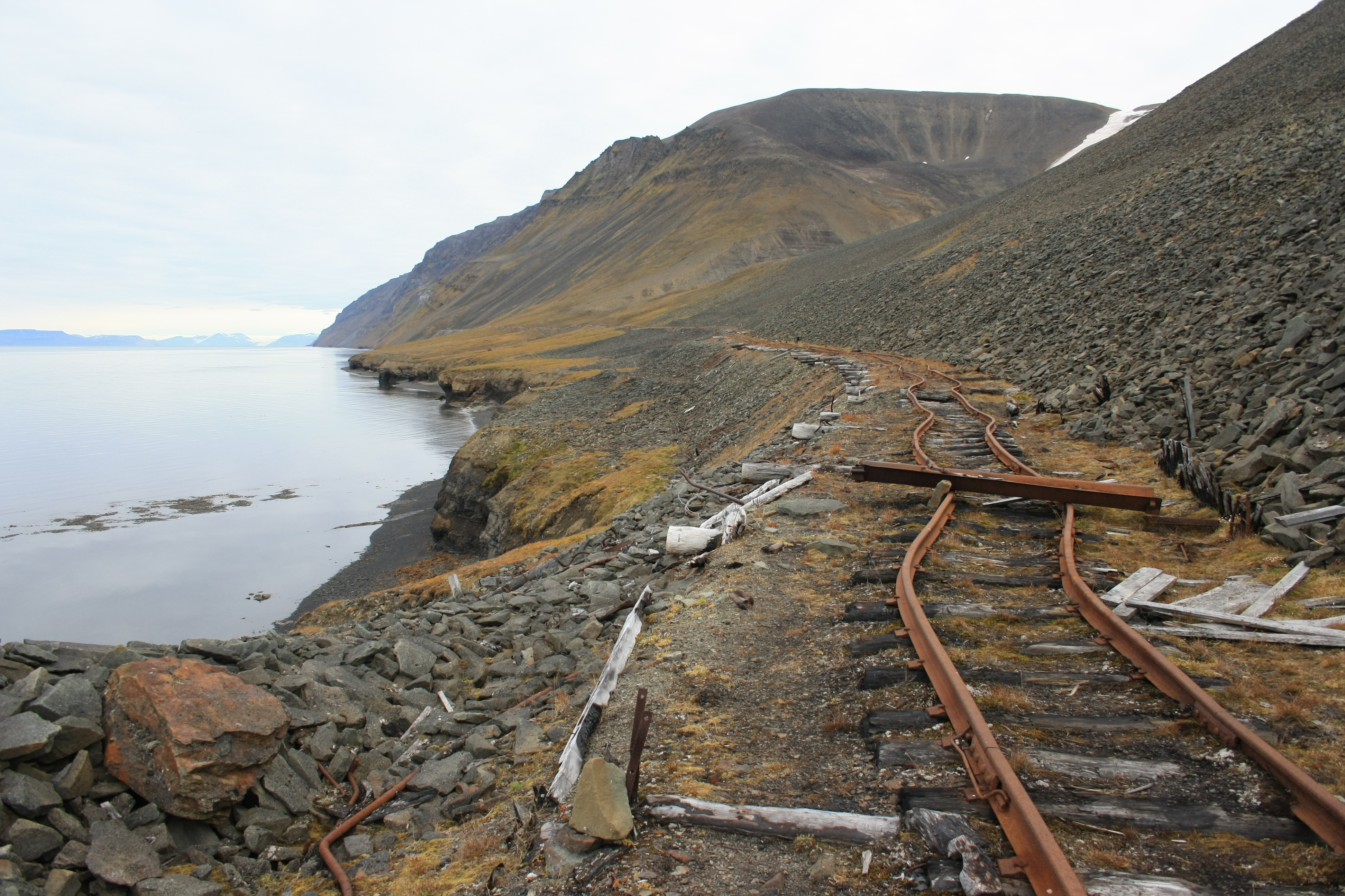 Abandoned railroad that connects Coles Bay to Grumantbyen, Svalbard